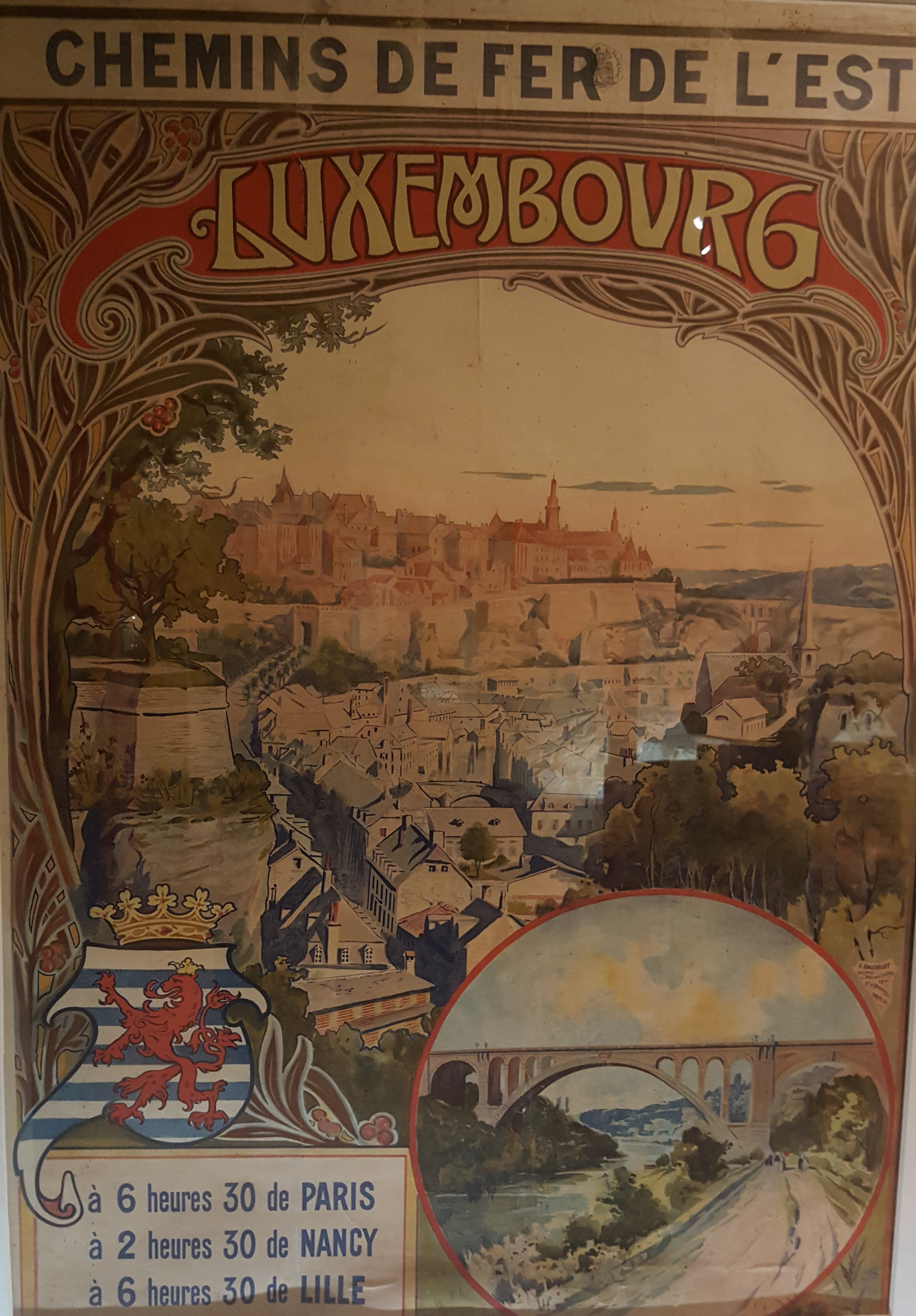 Luxembourg railway poster: 6 1/2 hours to Paris